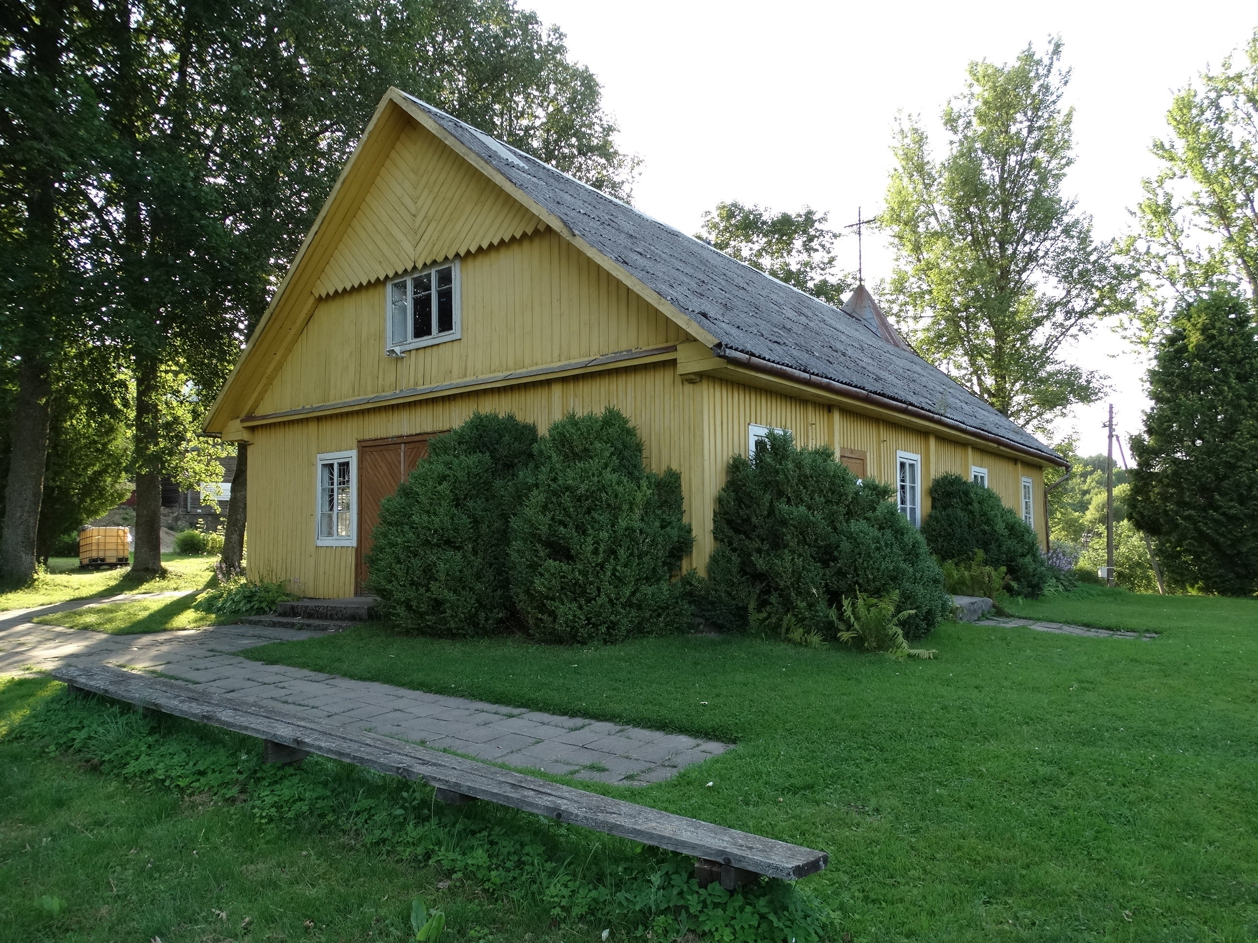 St. George's Church in Dubingiai, Molėtai district, Lithuania